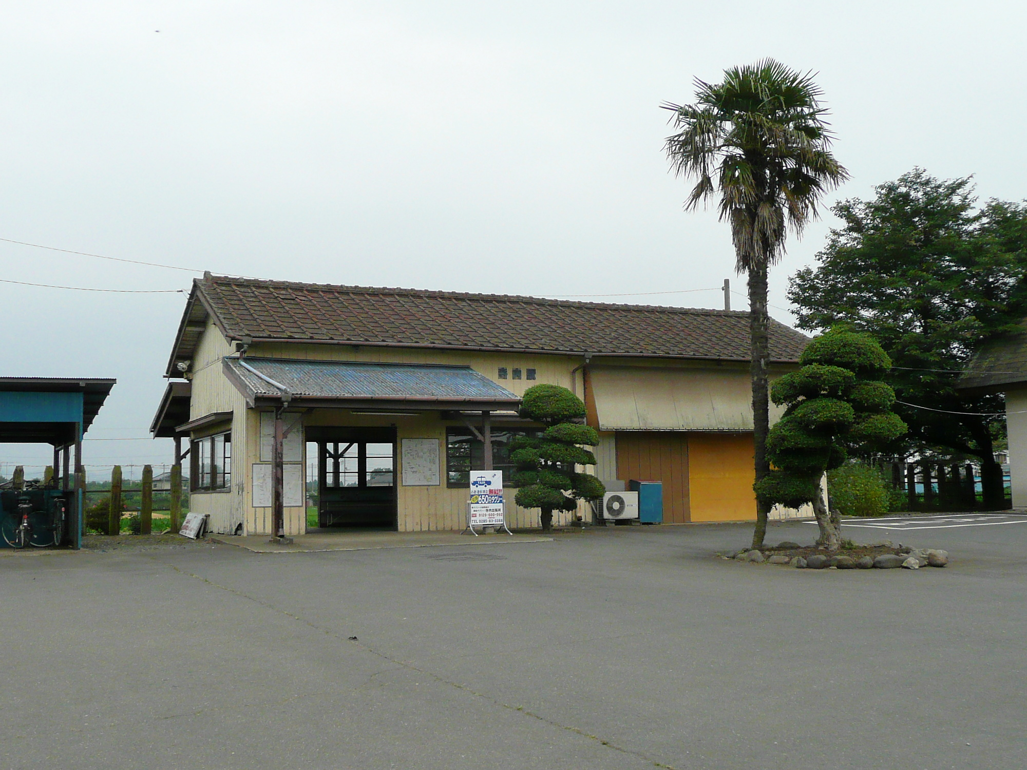 Terauchi Station,Moka Railway.